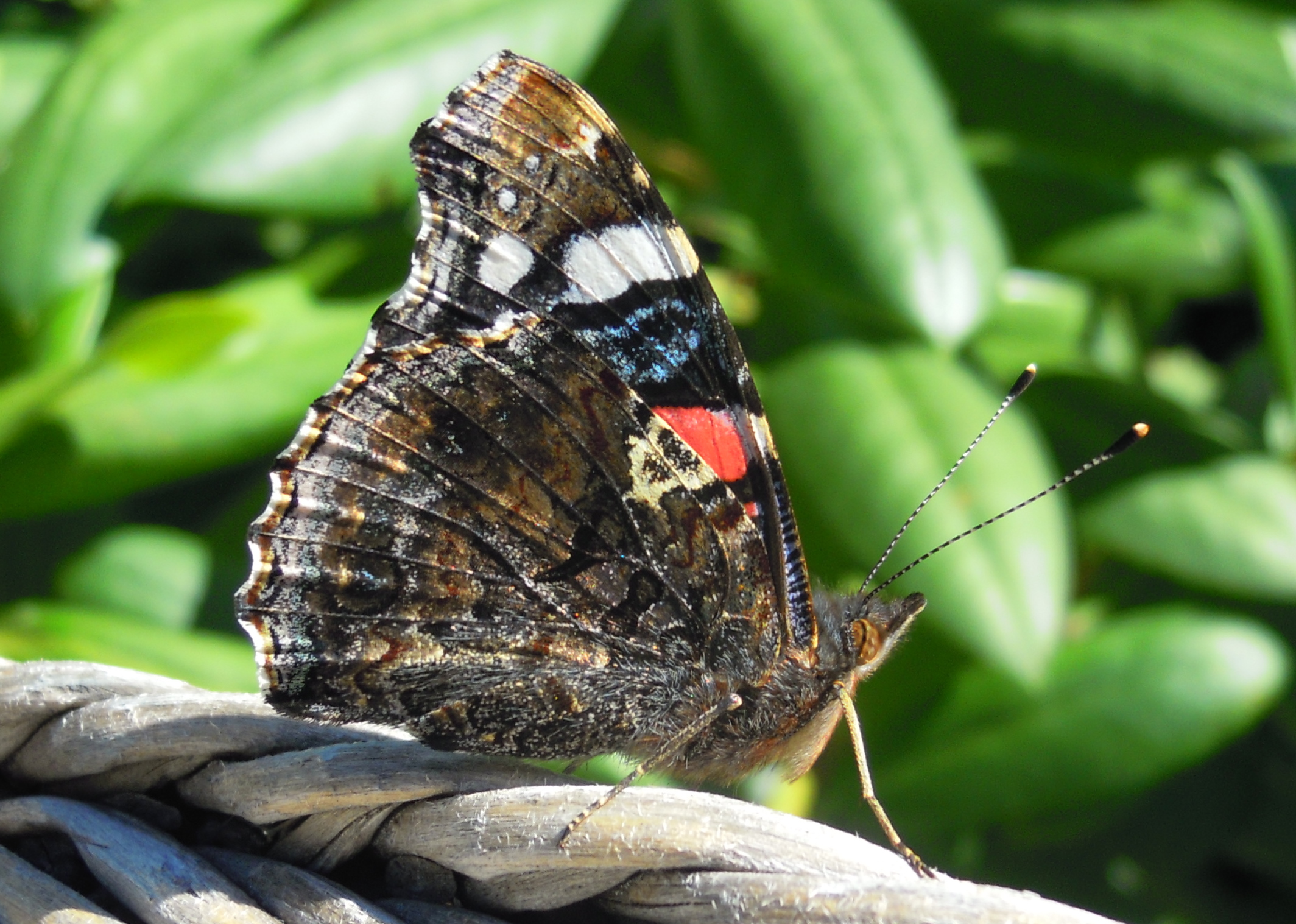 Red Admiral (Vanessa atalanta), Larvik, Norway